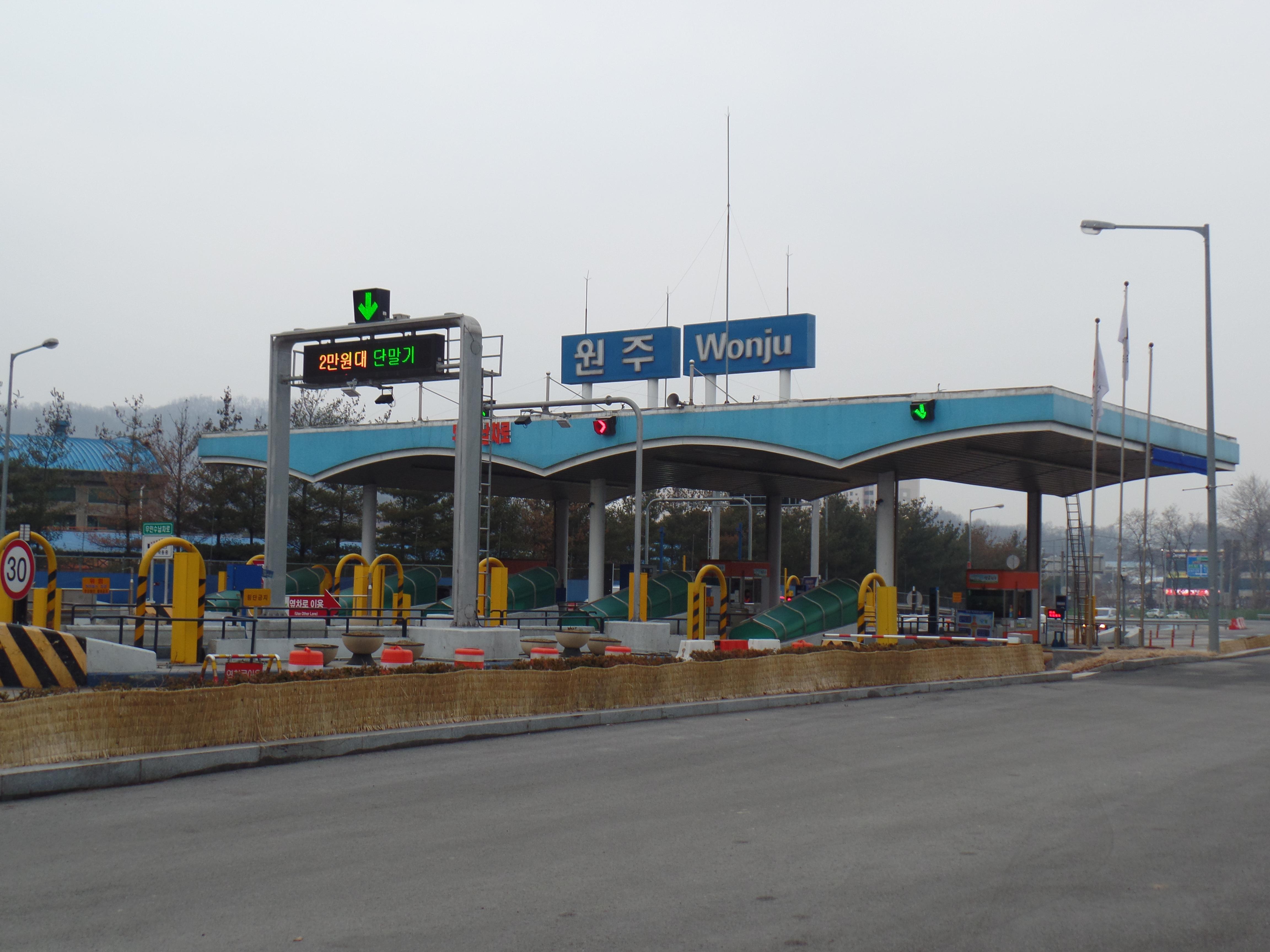 Yeongdong Expressway Wonju Interchange Tollgate